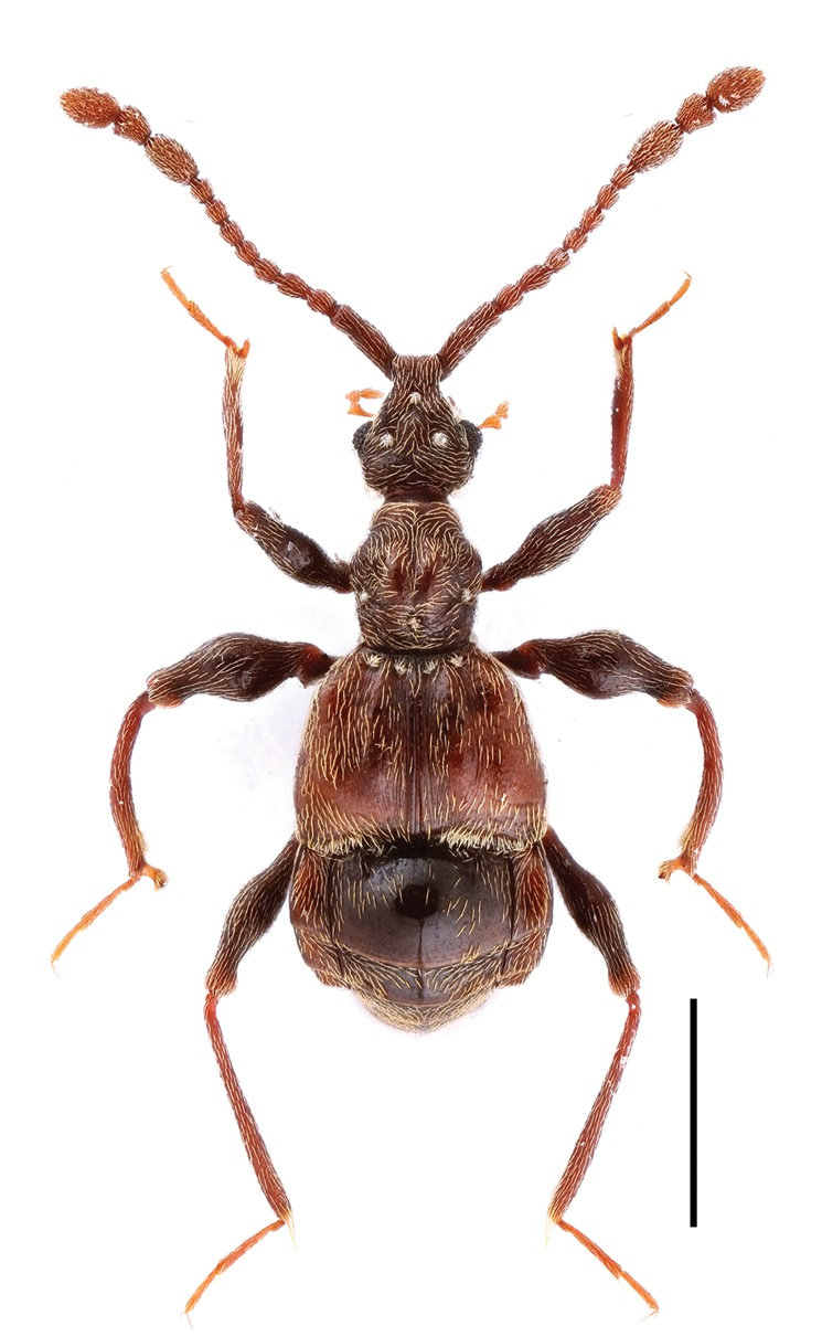 Male habitus of Pselaphodes venustus. Scale: 1.0 mm.